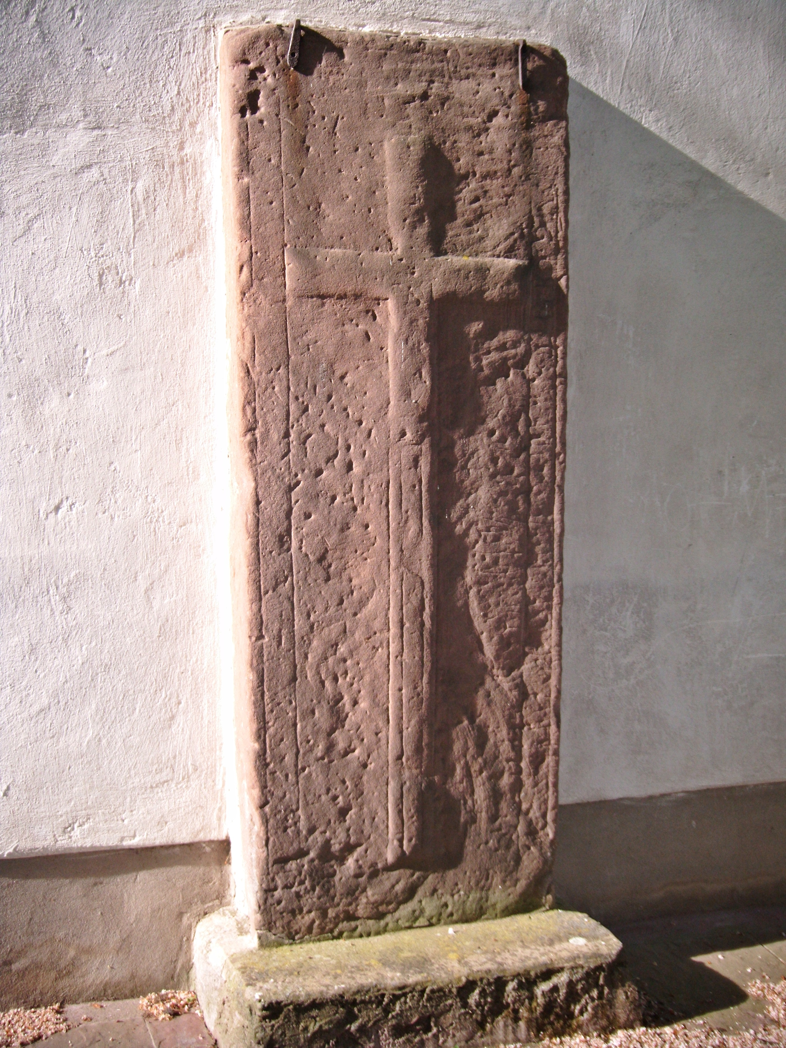 Heuchelheim bei Frankenthal, Prot. Kirche, Grabplatte aus dem 12. Jahrhundert